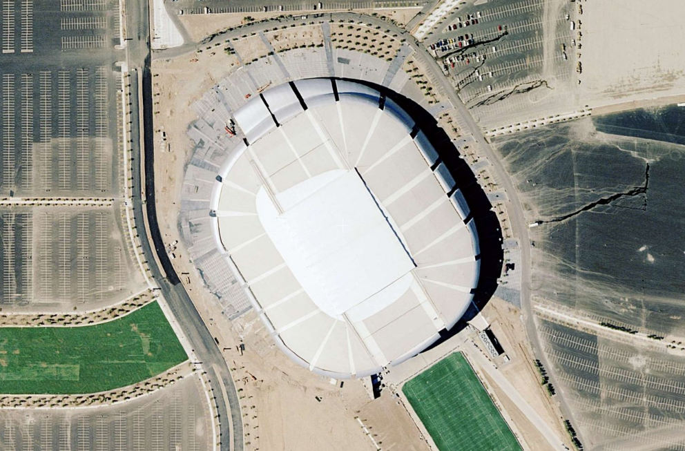 Image satellite du University of Phoenix Stadium de Glendale, AZ Source nasa world wind 1.3.5